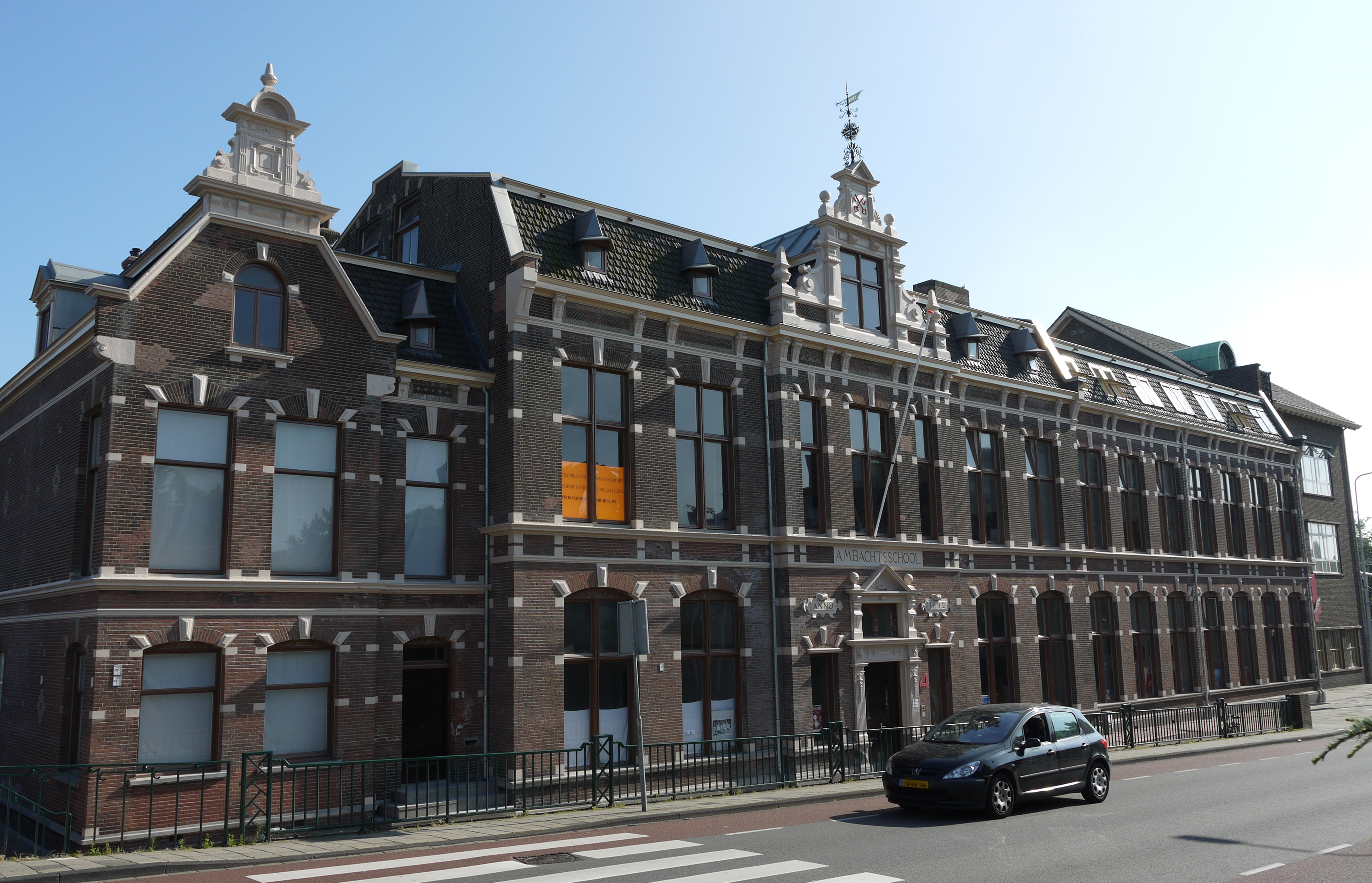 Building of the former school for crafts, located at the Haagweg in Leiden. The building has been restored in 2011 and original painting colors haven been applied.